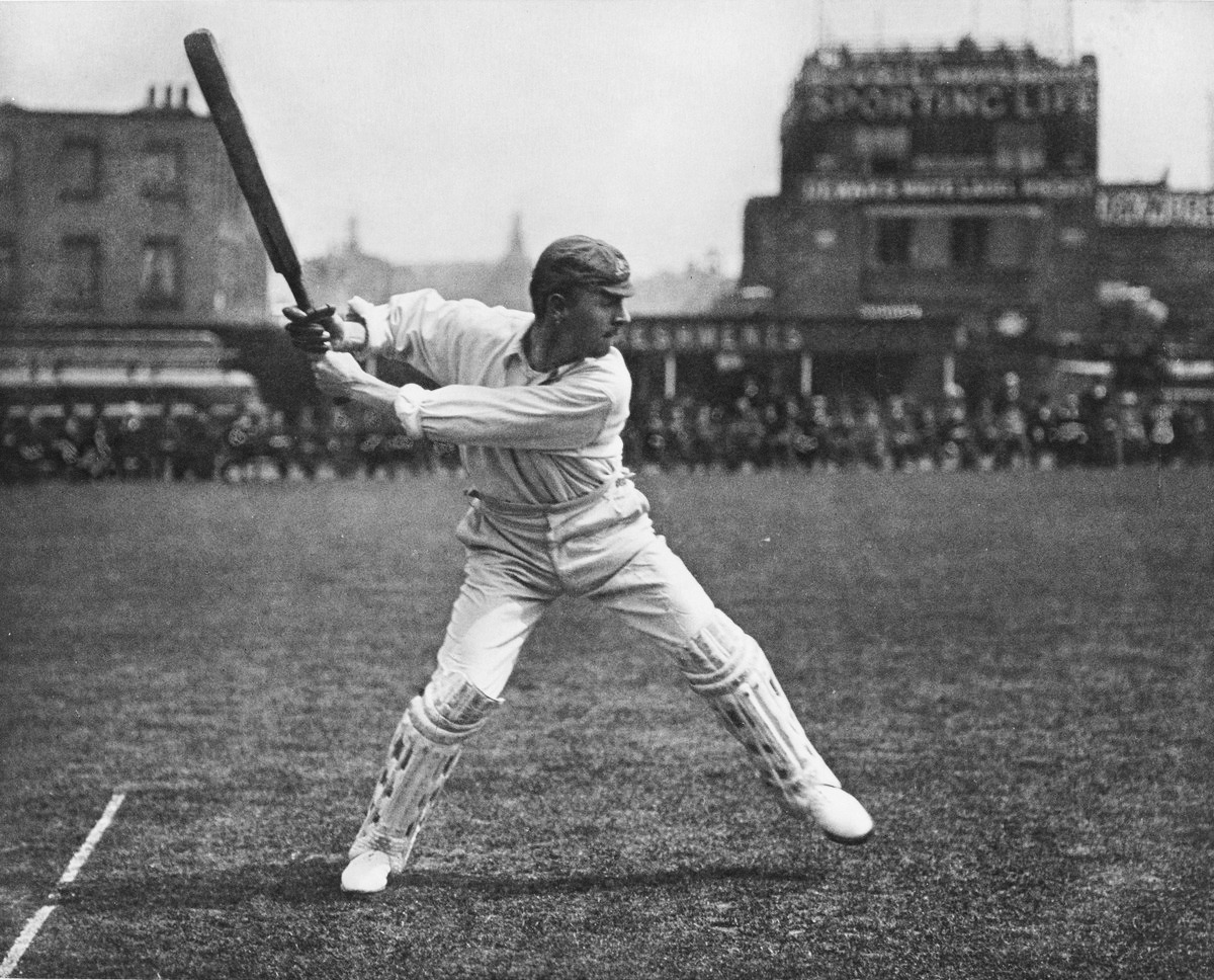 Australian cricketer Victor Trumper "jumping out for a straight drive".